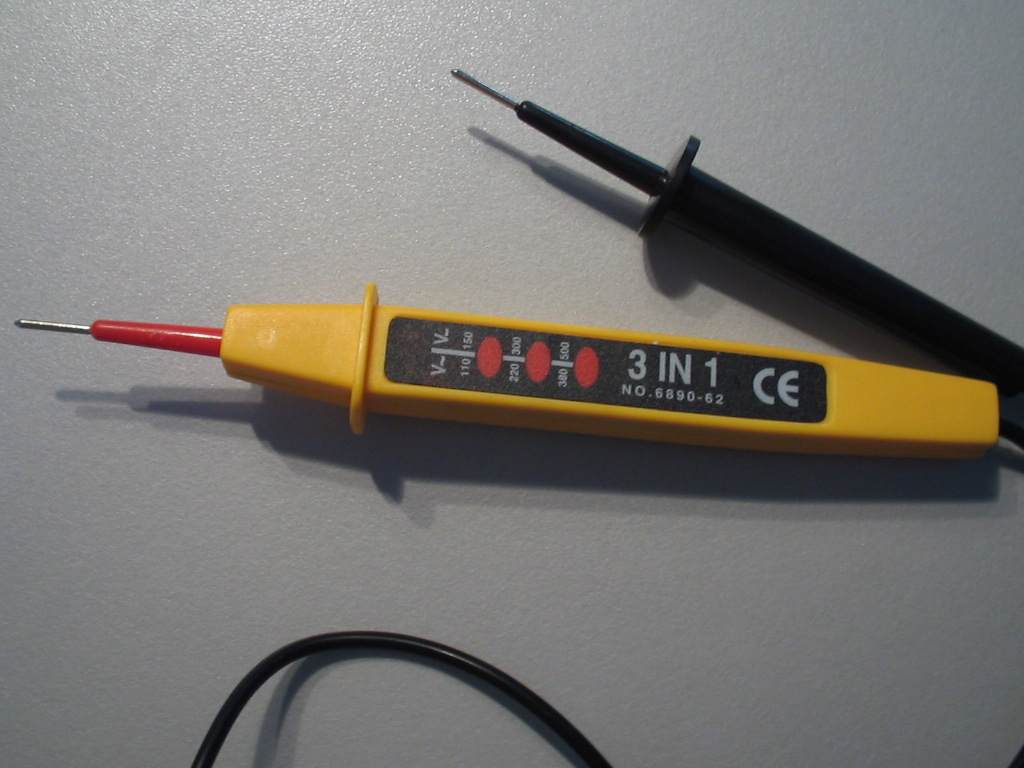 Test probe for checking for mains voltages